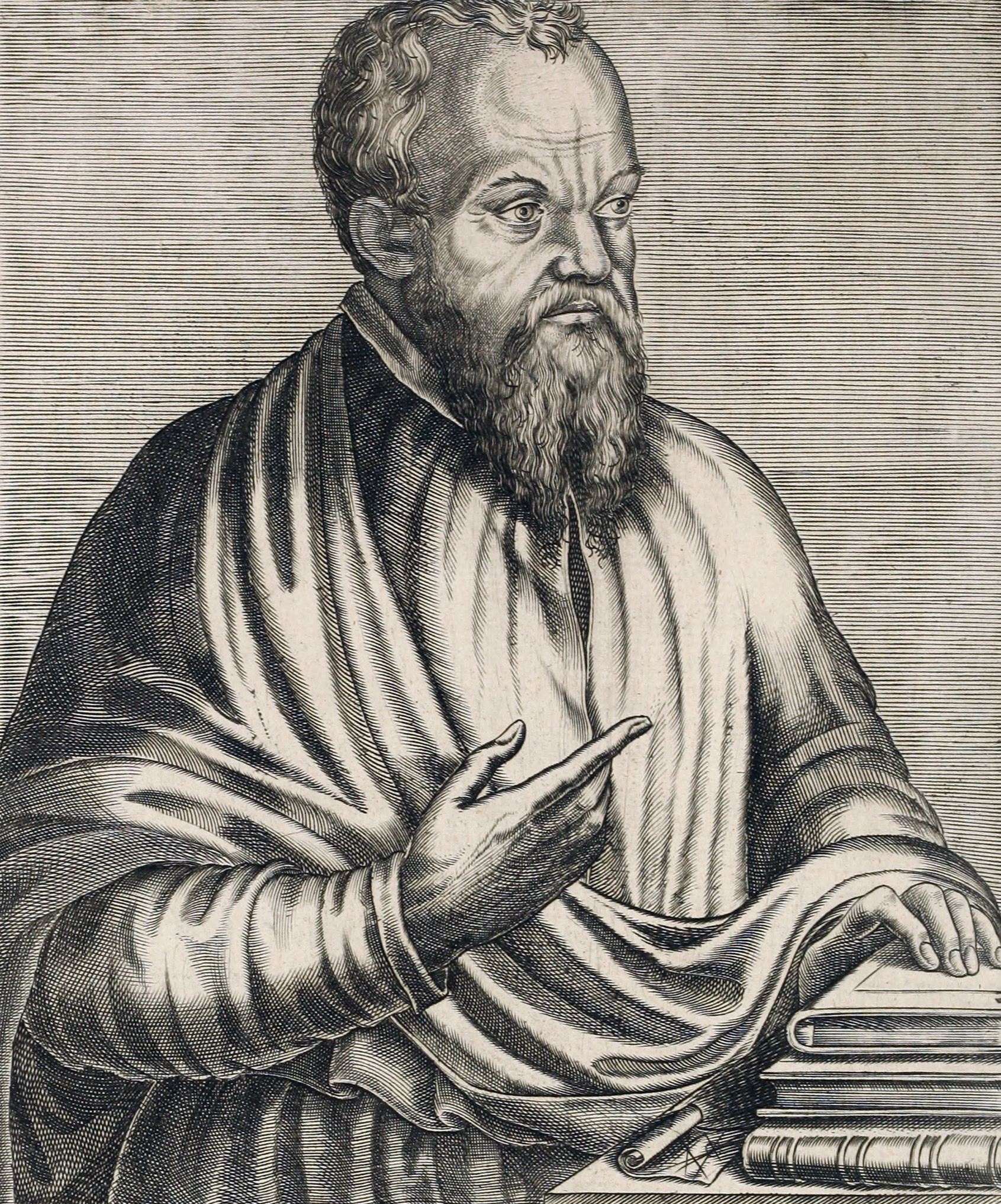 André Thevet, from tome 1 of Les vrais pourtraits et vies des hommes illustres grecz, latins et payens (1584) by André Thevet.